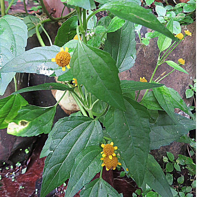 A mouth-numbing medicinal herb at the Omaere Etnobotanical Gardens in Puyo, Ecuador. There seems to be some confusion surrounding this species.